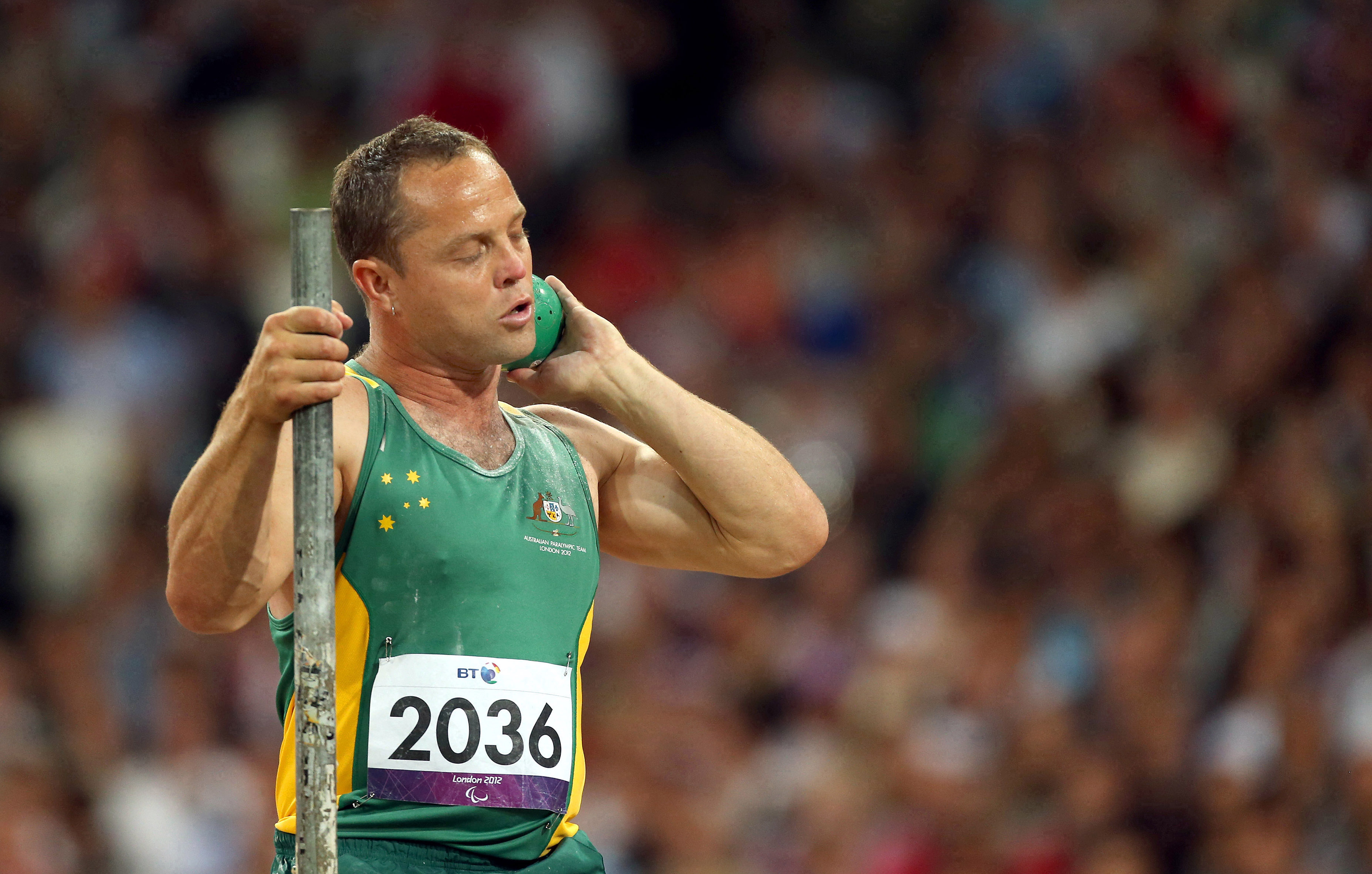 Photograph of Australian Paralympic team member Hamish MacDonald at the 2012 Summer Paralympic Games in London